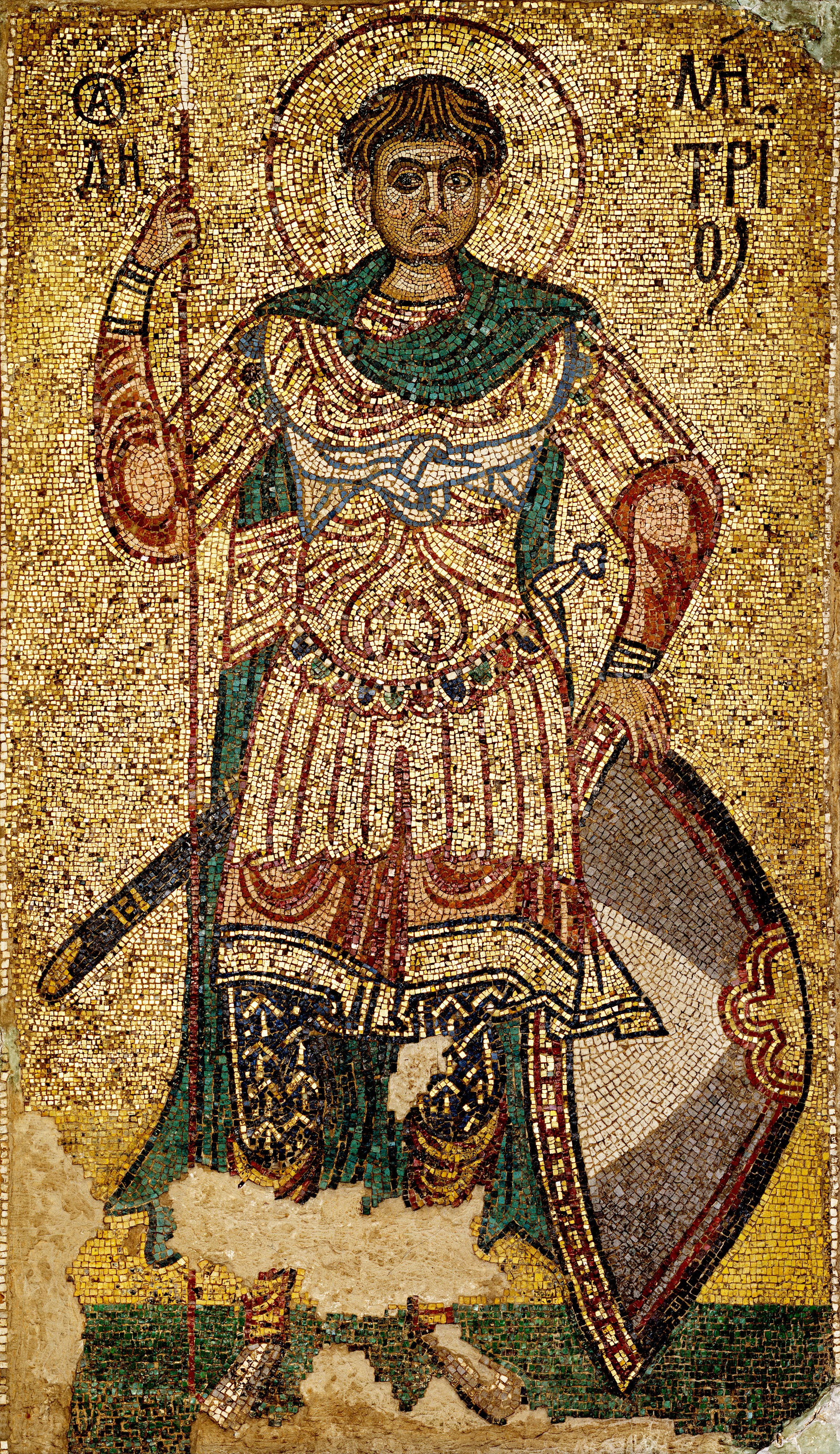 Kievan mosaic of Saint Demetrius Solunsky (early 1113 year, Kiev). Non-natural colours.